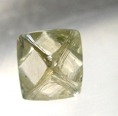 Diamond Locality: South Africa (Locality at ) Size: .61 x .55 cm. A slightly yellow diamond crystal, sharp in form.